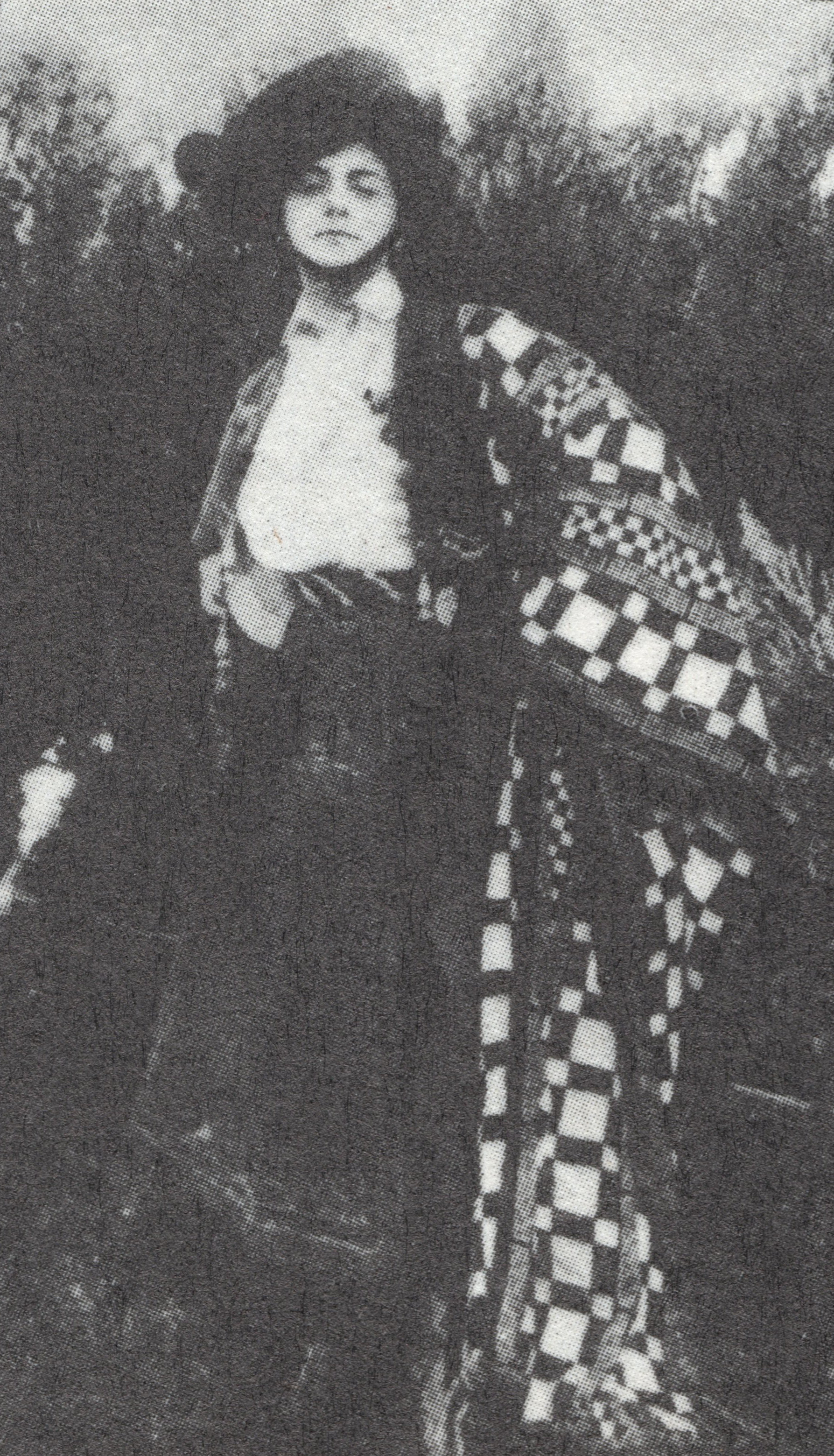 Mlle Victoria Lepanto in Carmen (Pathe 1909)